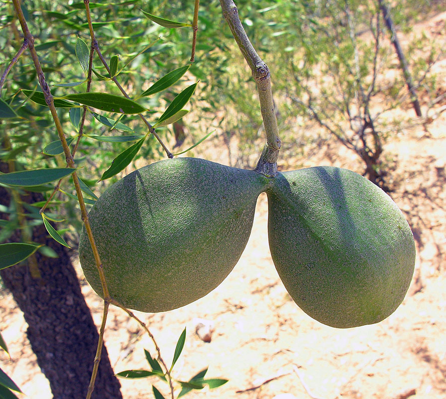 The unusual seed pods of the tree known in Argentina as Quebracho Blanco. In context at